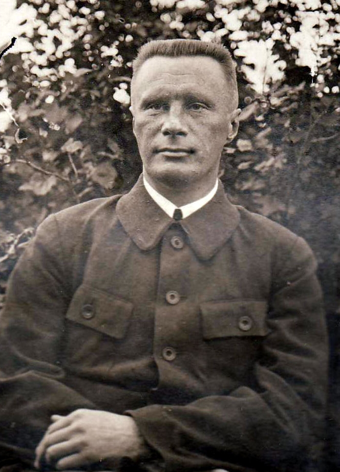 Paul Truusmann (1888-1936)